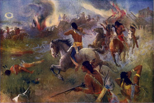 "The siege of New Ulm, Minn.", a painting by Henry August Schwabe. It depicts an attack on New Ulm on August 19, during the Dakota War of 1862.